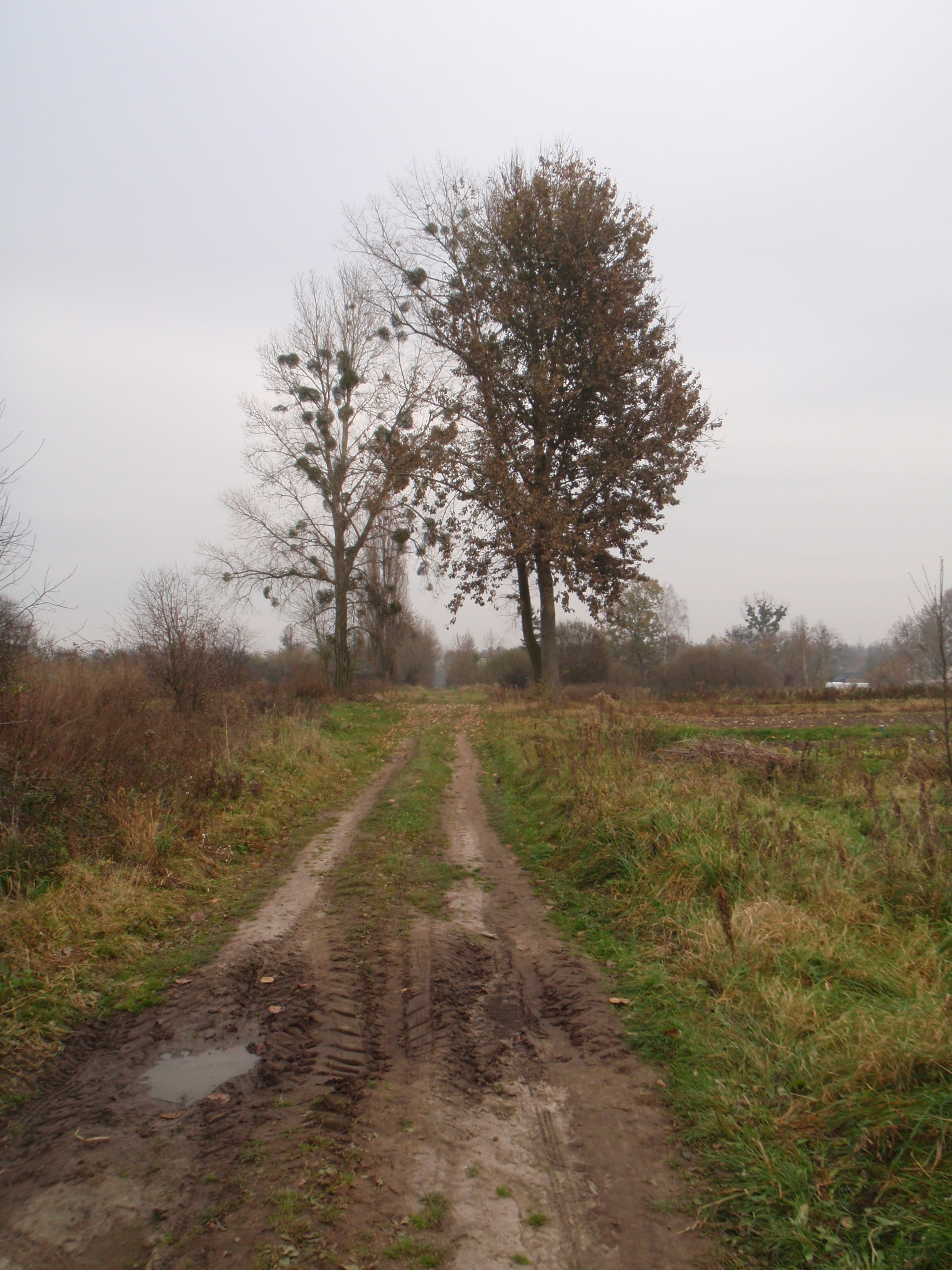 Chrząchówek - old road